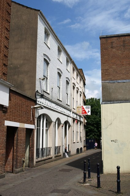 Former offices of The Citizen, Gloucester "The Citizen began life on April 9 1722 as the Gloucester Journal, making it the second oldest continuously published newspaper in the world." . "The Citizen first appeared on the streets of Gloucester on May 1, 1876 - a four-page newspaper costing one half-penny ... The first edition was printed in St John's Hall on the site of the present Marks & Spencer's. Later, an old beer house with a brewhouse was acquired on the other side of the lane and the two premises were linked by a foot-bridge" In 1988 the printing "transferred to a new plant at Staverton Technology Park". "The Citizen moved to the Oxebode in 2006". But the building still carries the words "Journals and Citizen Office".